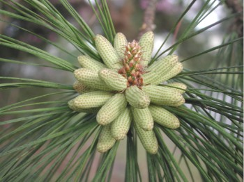 Loblolly pine (Pinus taeda) male cones.